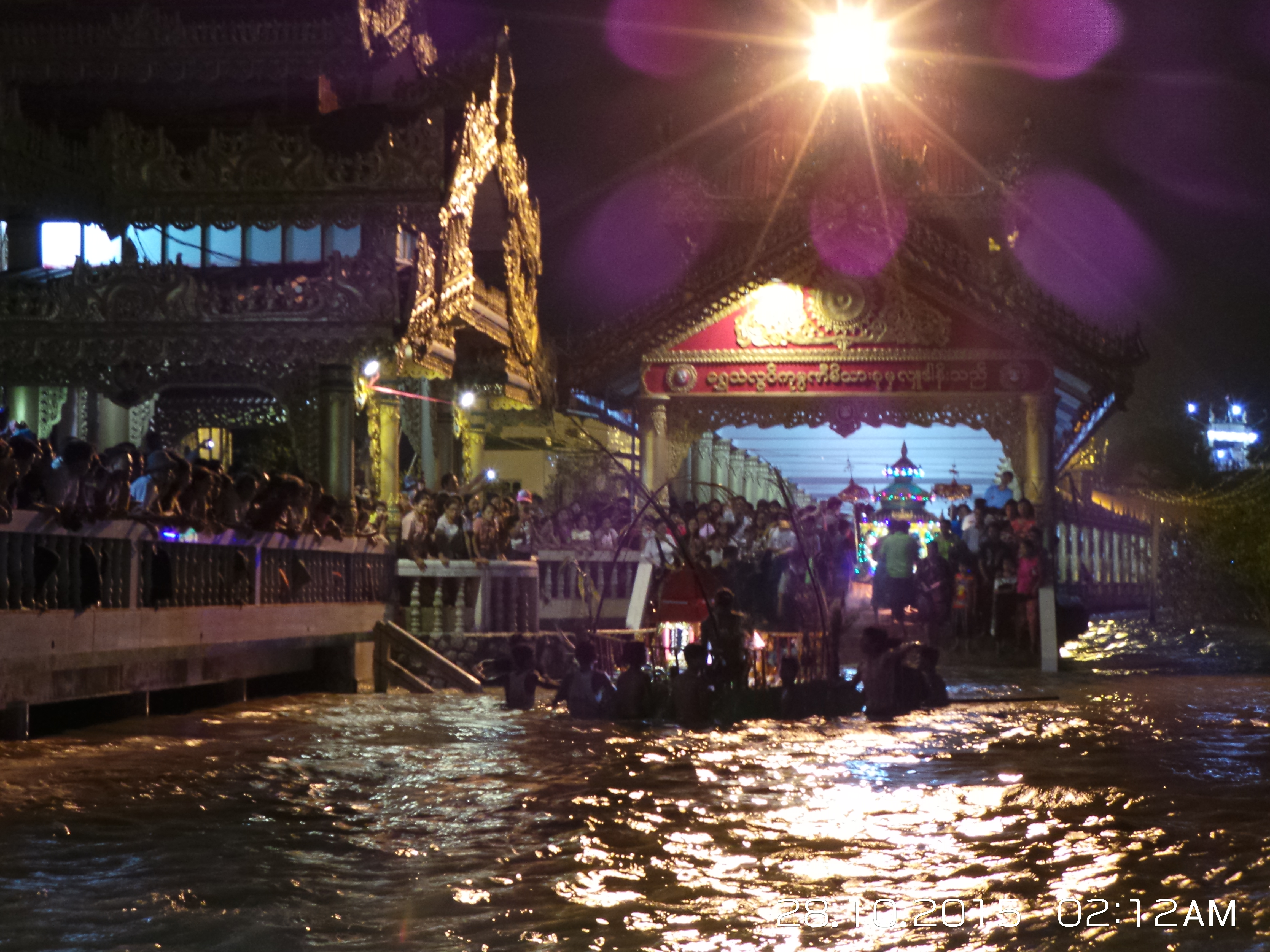 A drifting Shin U Pa Gota Raft on Full Moon Day of Thadingyut, Kyaikhami, Mon State မြန်မာဘာသာ: သီတင်းကျွတ်လပြည့်နေ့ ရှင်ဥပဂုတ္တဖောင်မျှောပွဲ၊ ကျိုက္ခမီ၊ မွန်ပြည်နယ်